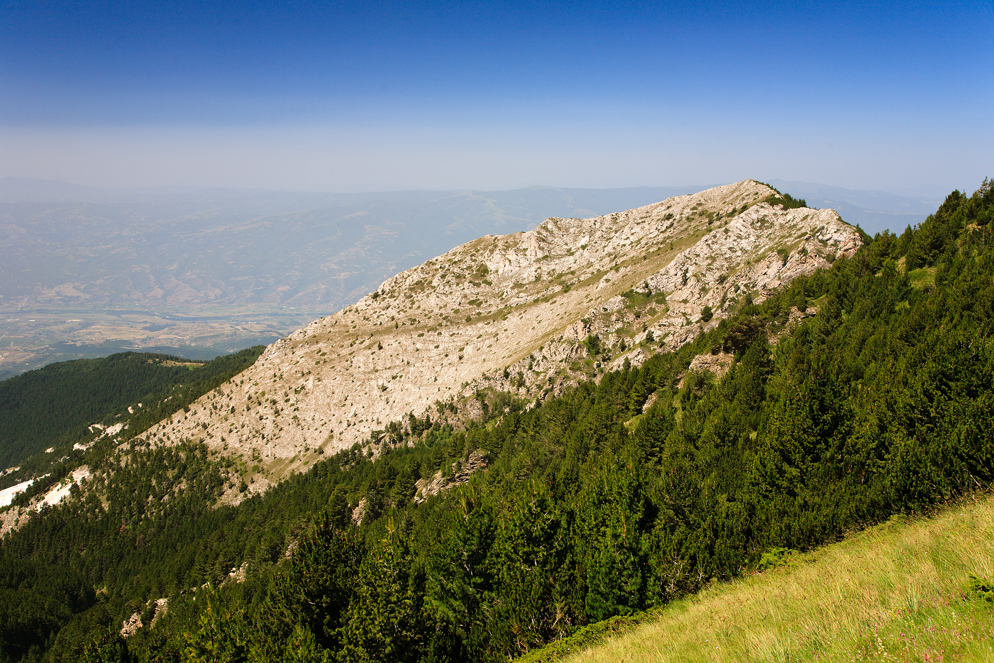 Sharalia peak in Pirin mountains, Bulgaria